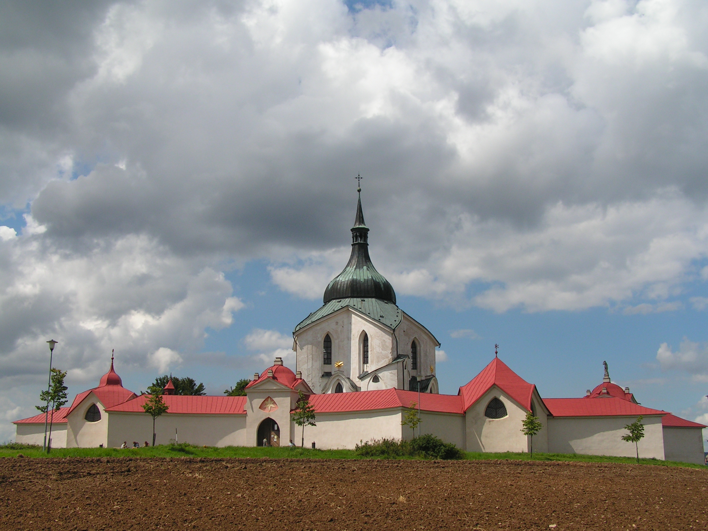 The Pilgrimage Church of St John of Nepomuk at Zelená hora (Gruneberg) in Žďár nad Sázavou in the Czech Republic, the final masterpiece of Jan Santini Aichel. In 1993 it was declared a World Heritage Site. See where this picture was taken. [?]